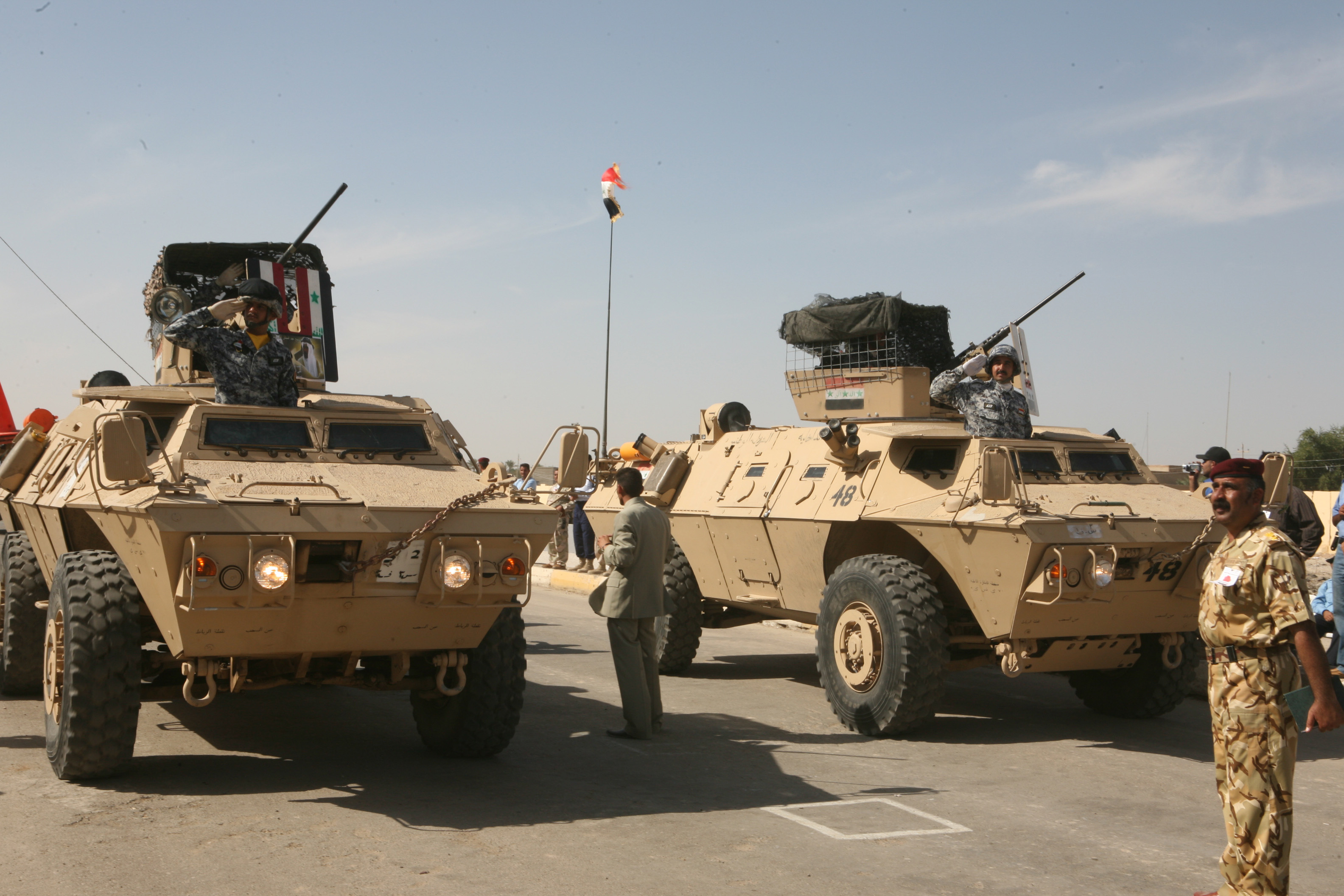 Iraqi army soldiers drive light armored vehicles in a parade in Ramadi, Iraq, October 23, 2007. The parade is for the citizens to celebrate the city's rebirth and fortieth day since the death of Sheik Satar Abu Risha.